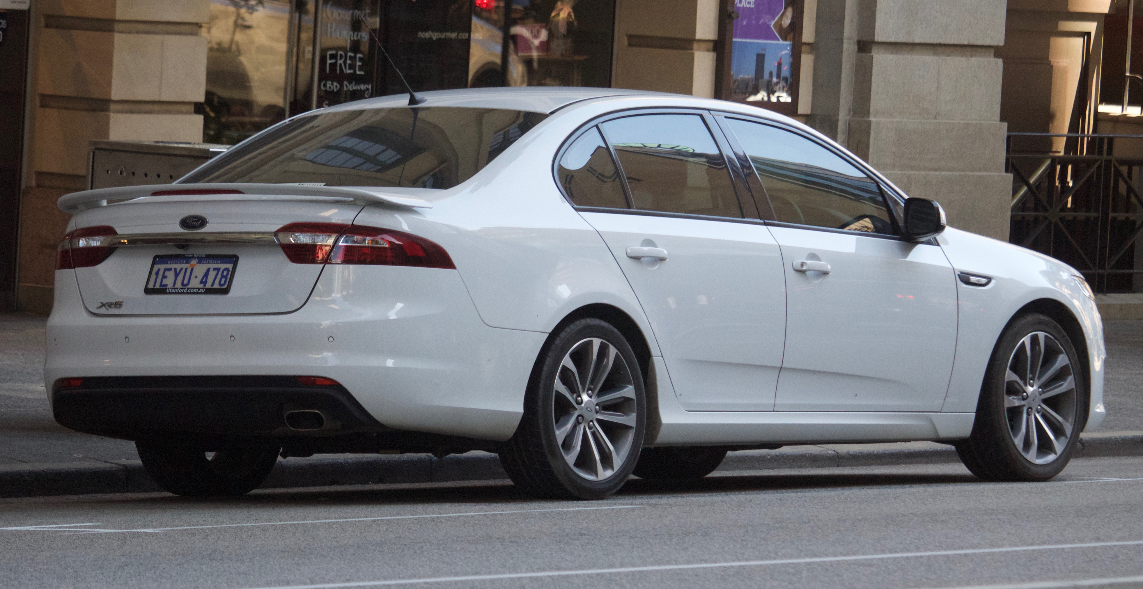 2016 Ford Falcon (FG X) XR6 sedan. Photographed in Perth, Western Australia, Australia.